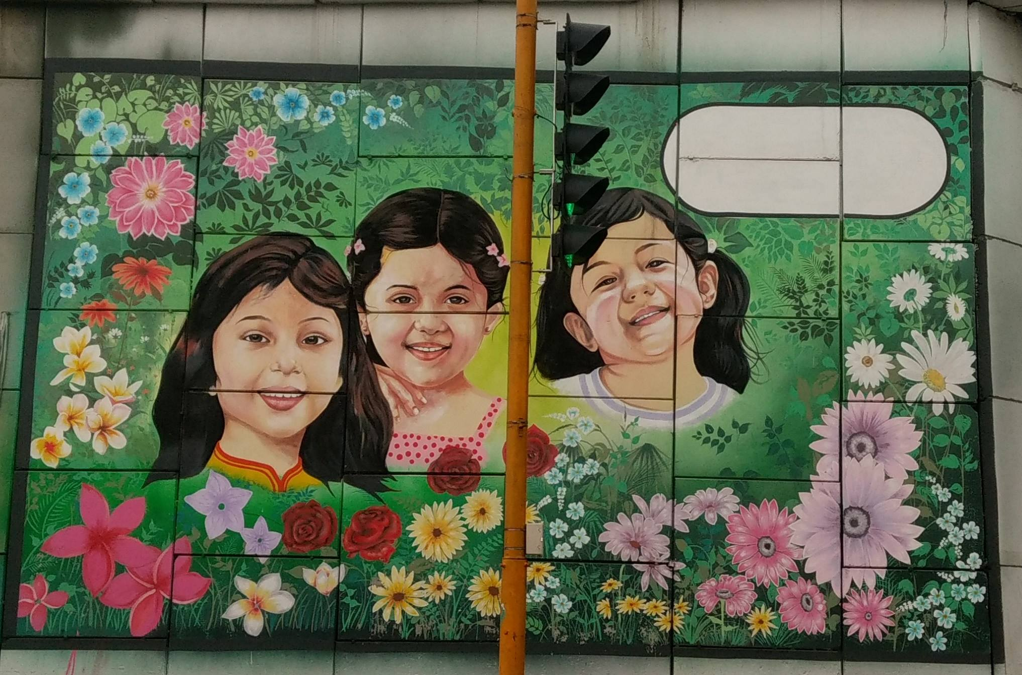 Save Girl Child This photo has been taken in the country: India